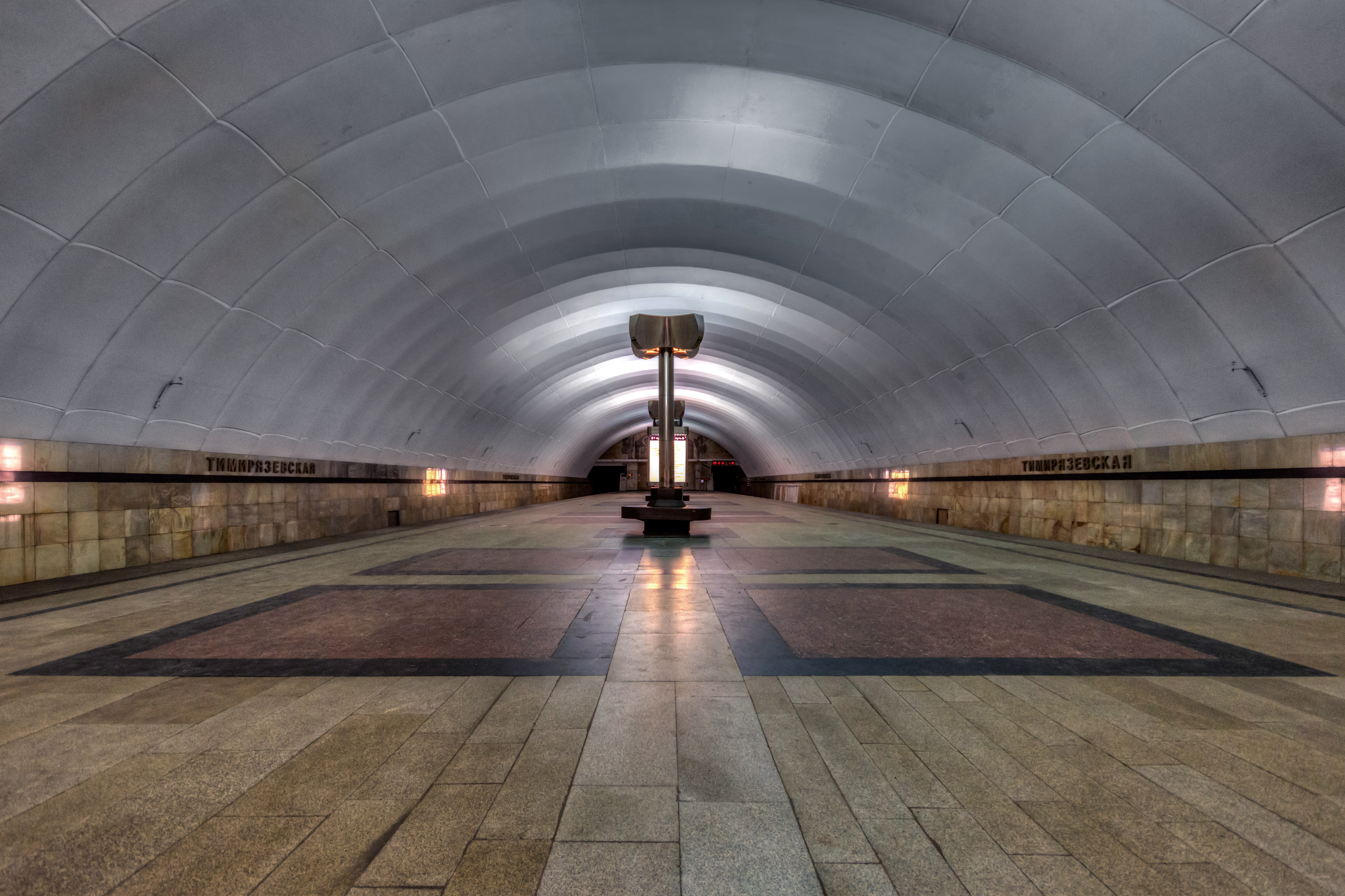 Timiryazevskaya Station of Moscow Subway